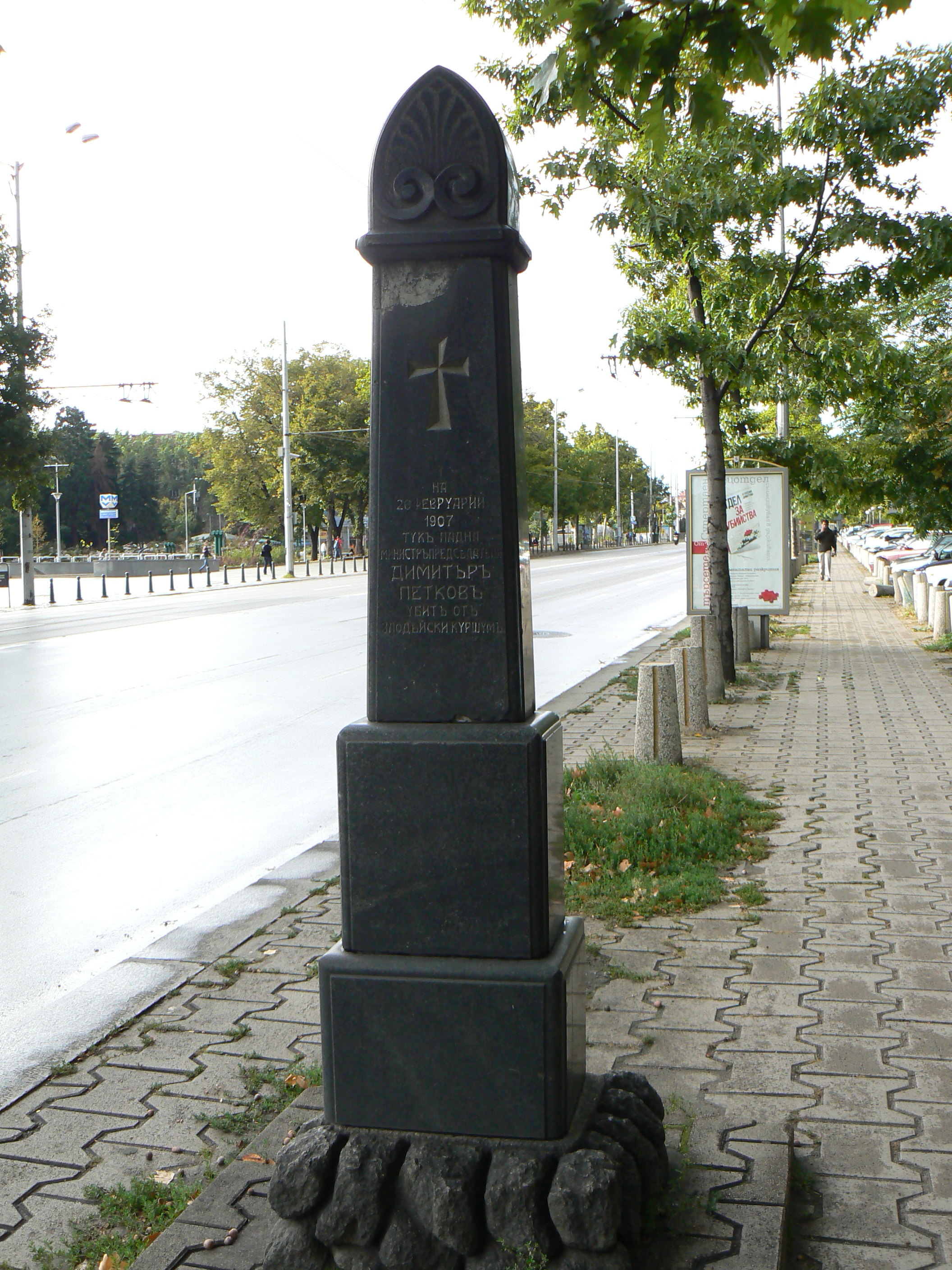 Memorial of the Bulgarian prime minister Dimitar Petkov's execution on the "Tsar Osvoboditel" Blvd. in Sofia, Bulgaria